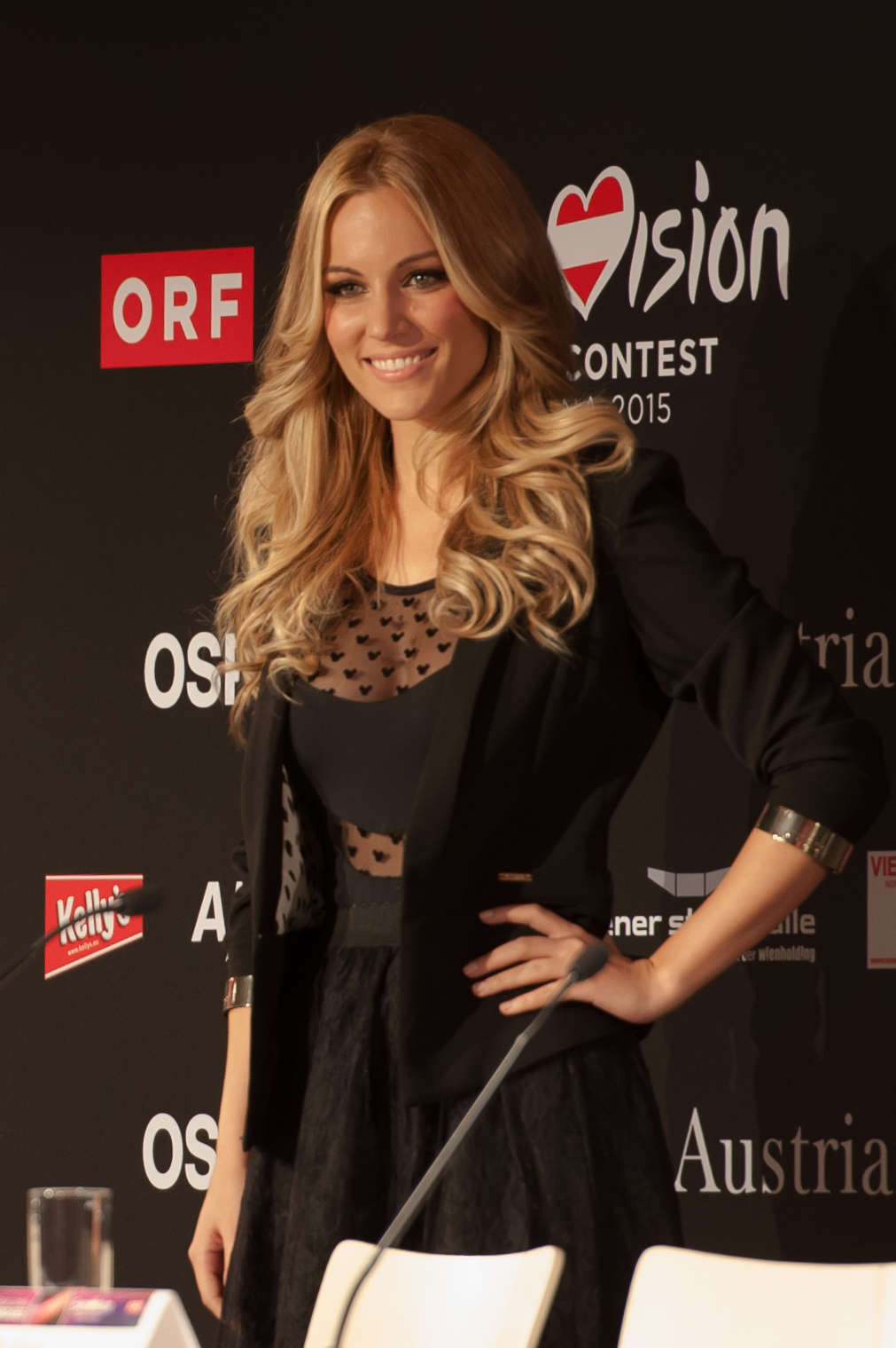 Eurovision Song Contest Vienna 2015: Edurne